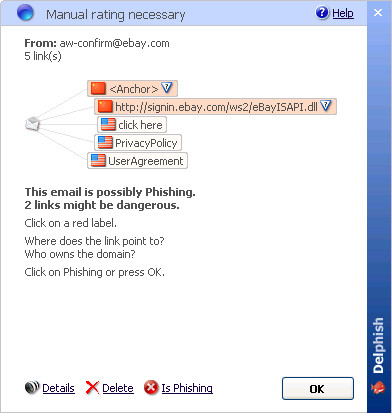 The screen shown when Delphish suspects phishing.